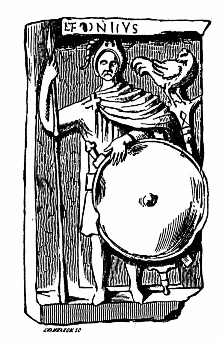 Drawing of a funeral stele found in Strasbourg, dedicated to the Roman legionary Lepontius, which was taken for an altar to the god Leherenn. Illustration by A.-E. Barry, in Le dieu Leherenn d'Ardiège, Paris-Toulouse, 1859 (work now in public domain).